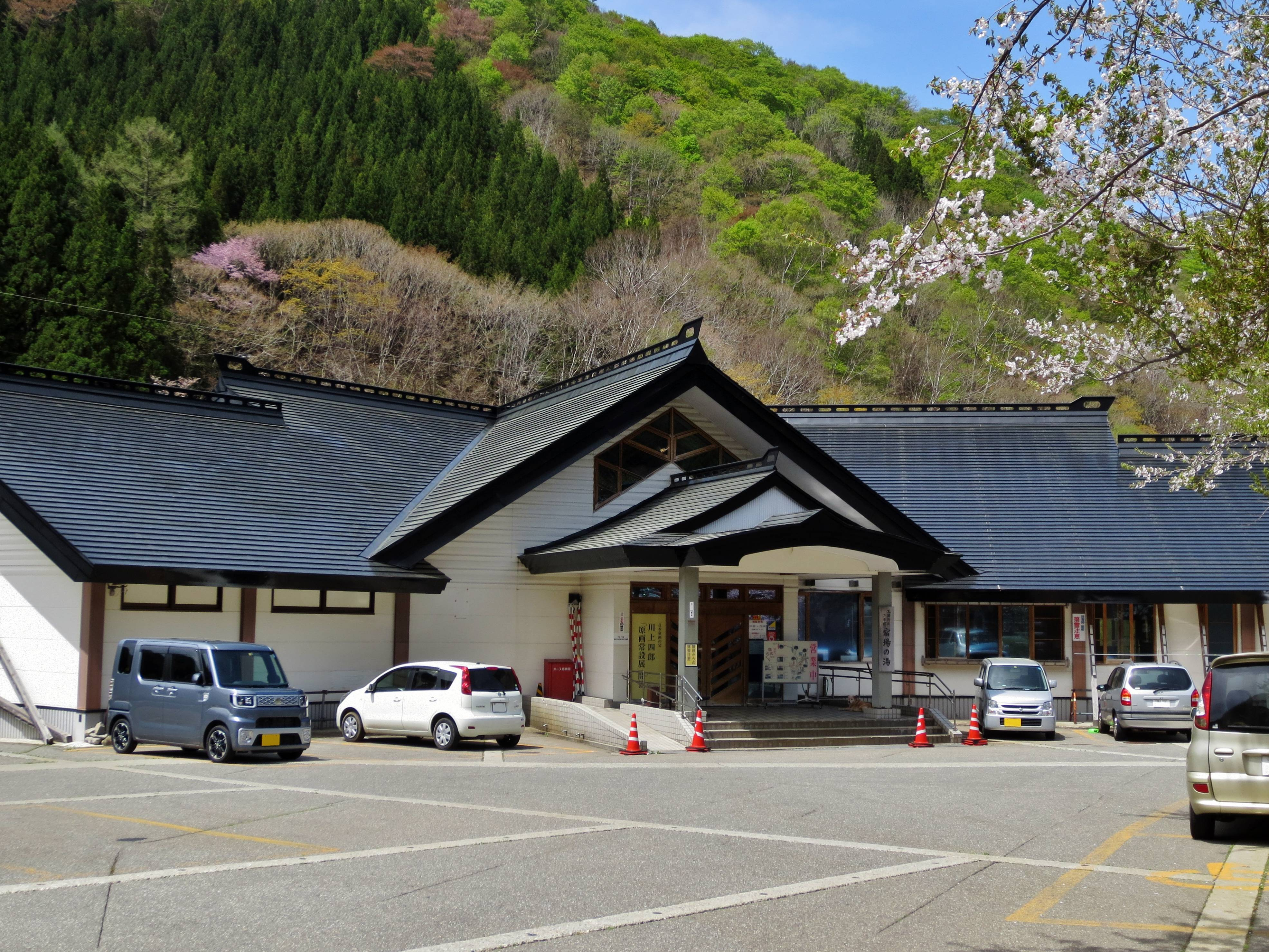 Shukuba no yu.